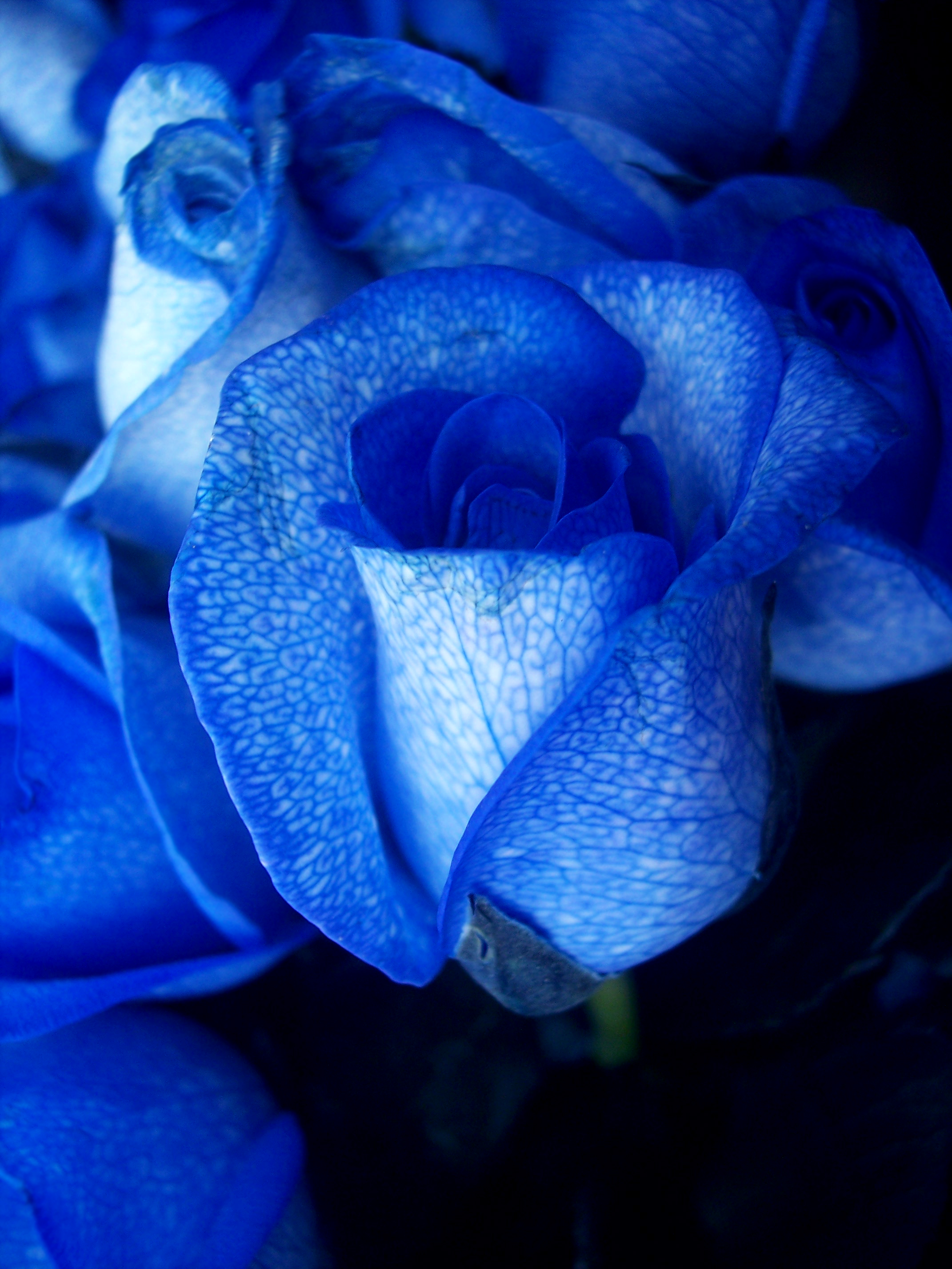 An artificially coloured rose. A white rose is artificially coloured with blue dye to be sold as a blue rose.